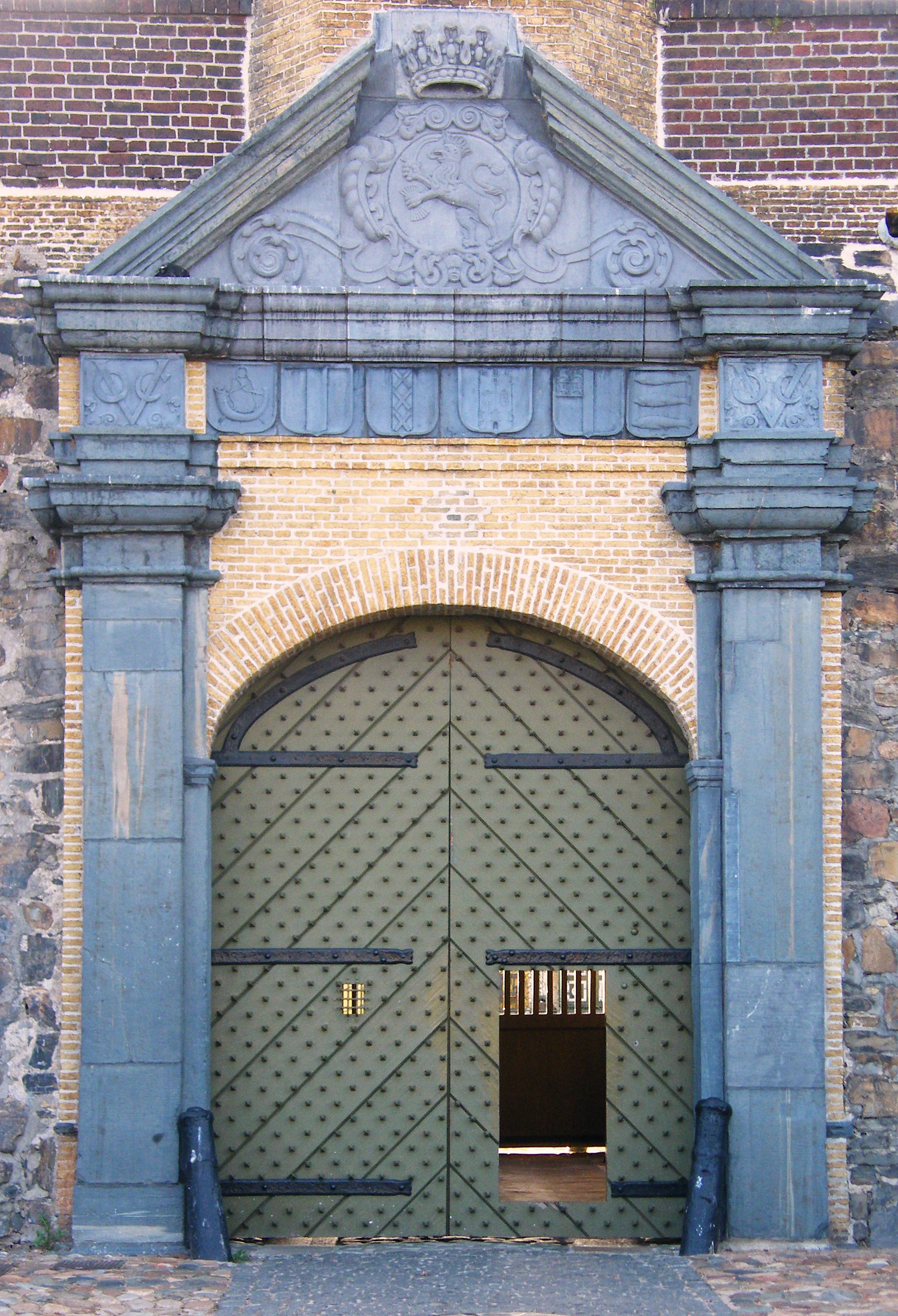 Castle Door Cape Town Castle